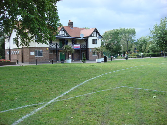 Pavilion, Paddington Recreation Ground